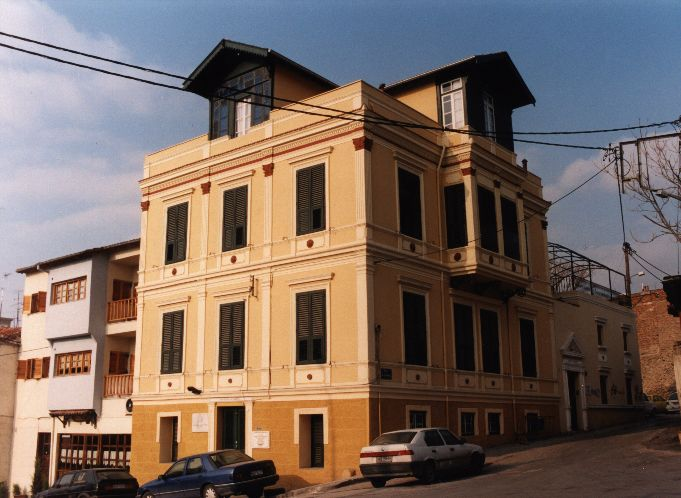 The building of Karipio Melathro in Thessaloniki, Greece. Former residence of the Ottoman representative in Macedonia and now home of the Institute for National and Religious Studies(Thessaloniki).